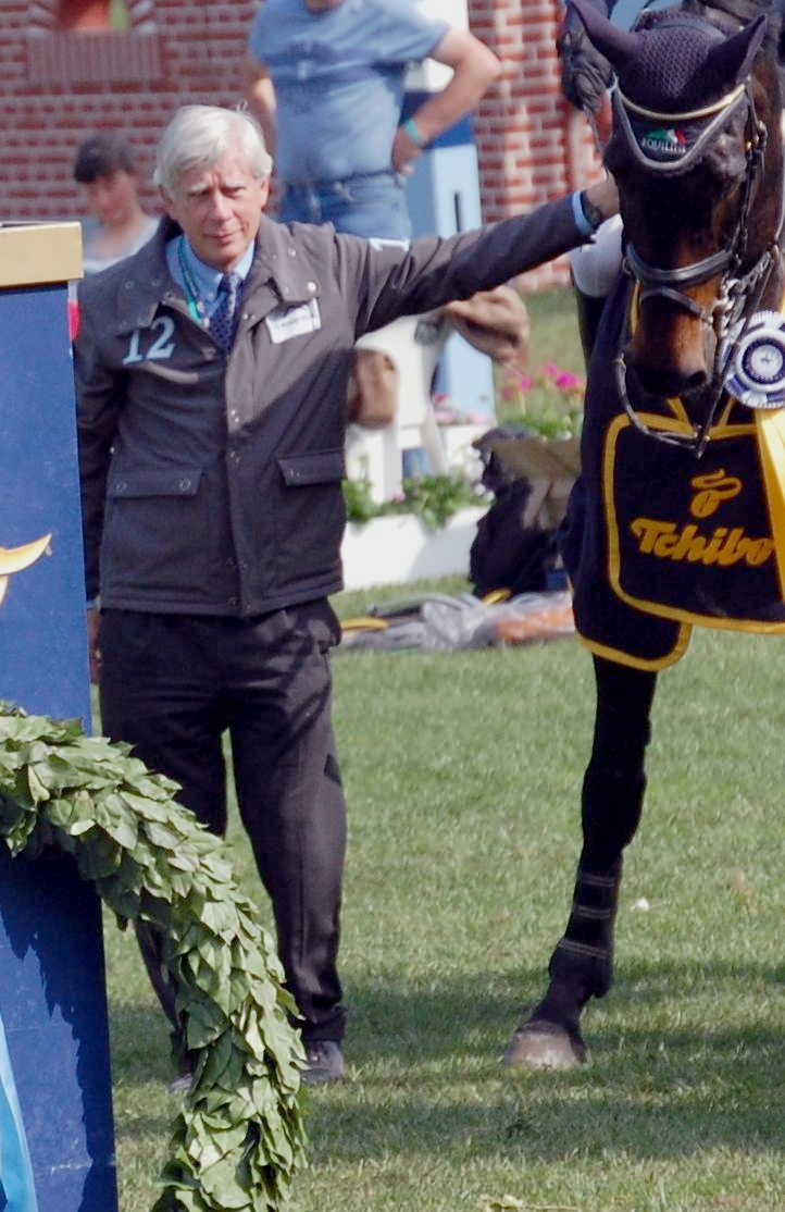 German businessman and former show jumper Paul Schockemöhle at the 2012 German show jumping derby